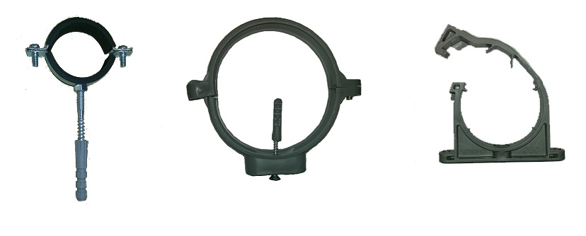 Pipe homut